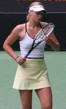 Maria Sharapova at the 2007 Australian Open.